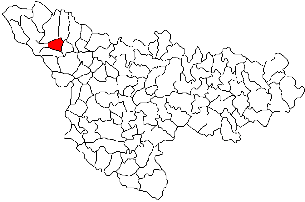 Locator map of the commune of Tomnatic, Timiș County, Romania Tomnatic, Timiș